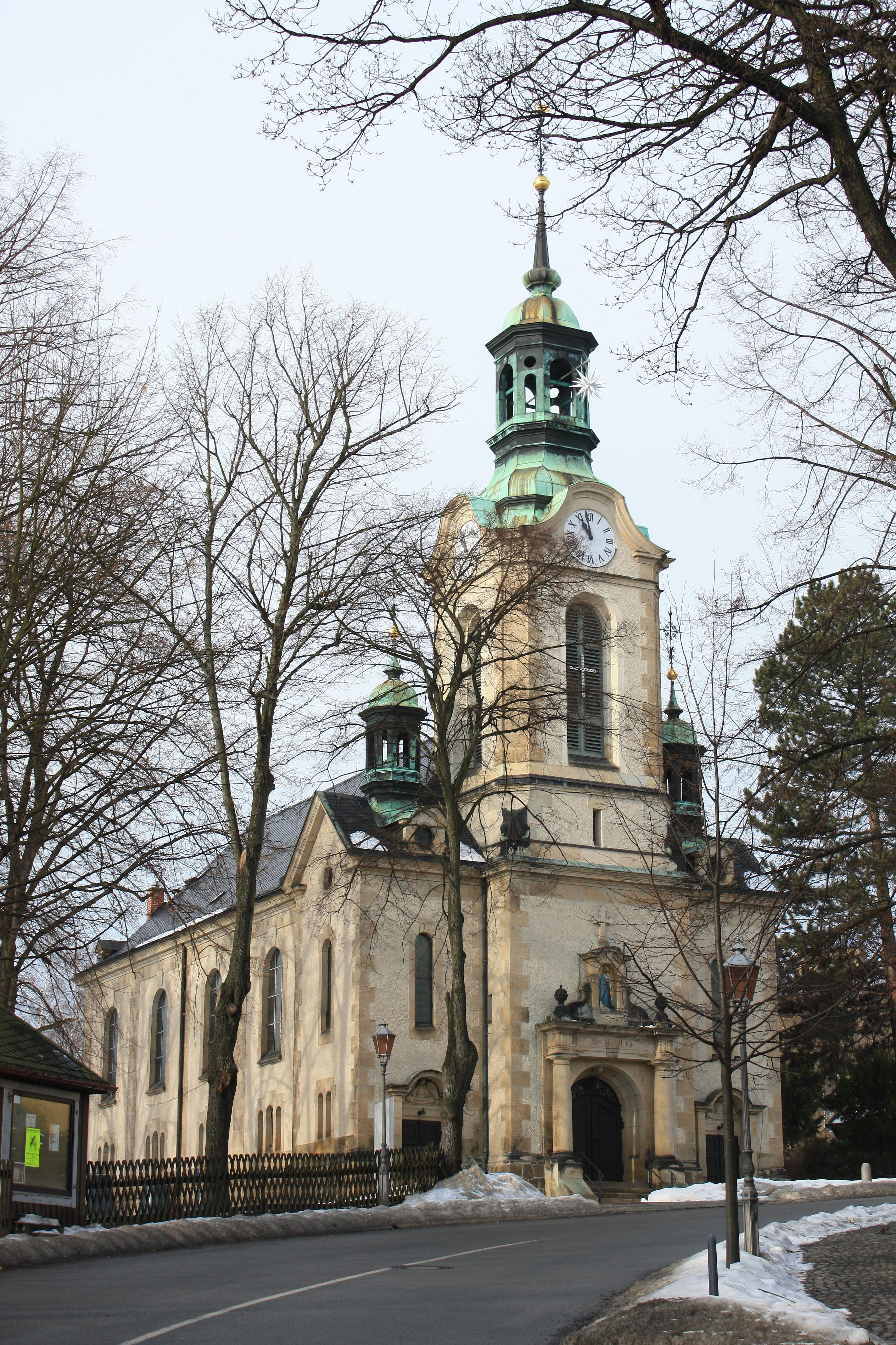 Christuskirche church Beierfeld